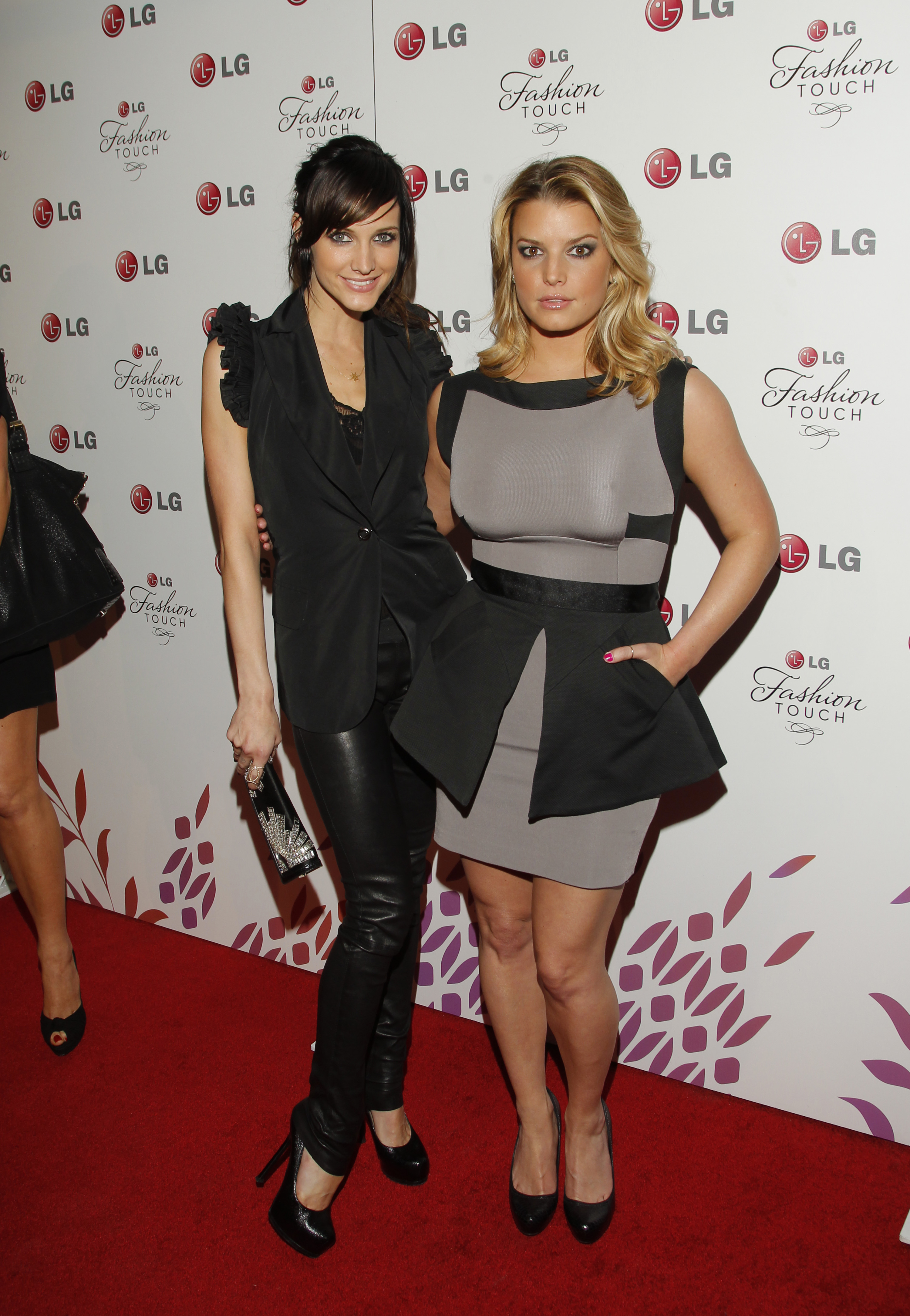 Singers and sisters Jessica Simpson (left) and Ashlee Simpson at the Victoria Beckham & Eva Longoria Parker "A Night of Fashion & Technology with LG Mobile Phones".